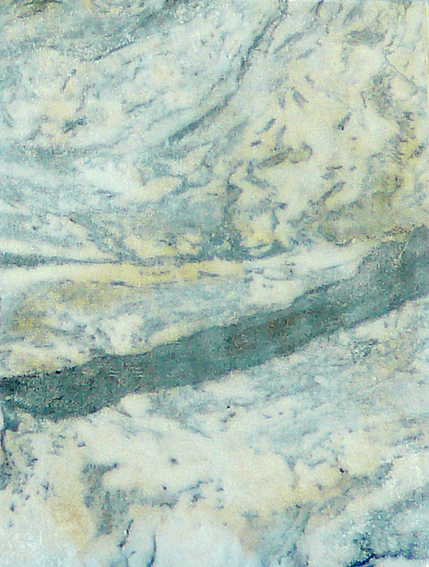 Gold door of Bok Tower in Lake Wales, Florida